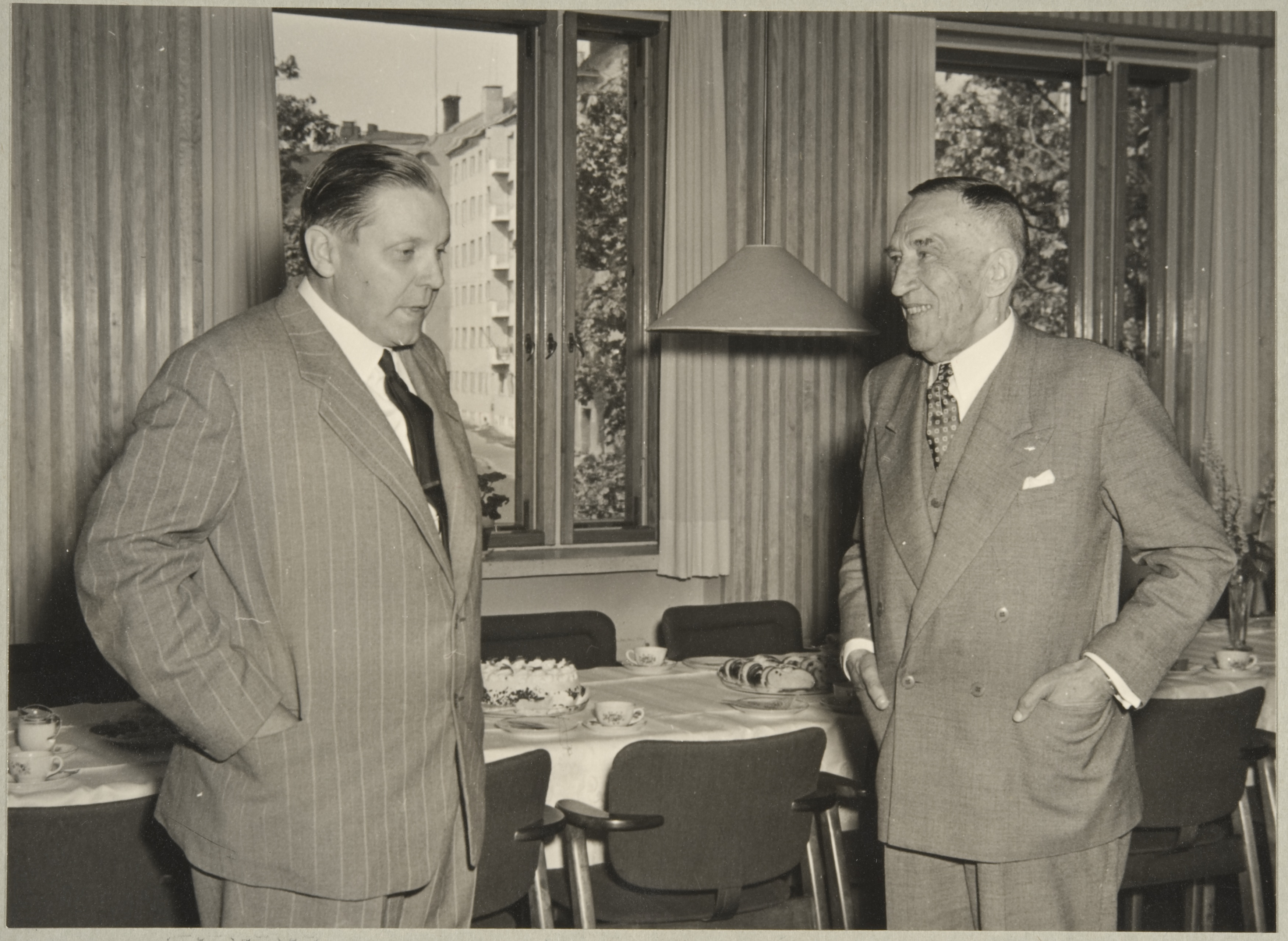 Photograph of the Finnish businessmen Gunnar Hernberg (1904–1993) and John Grundström (1877–1953).